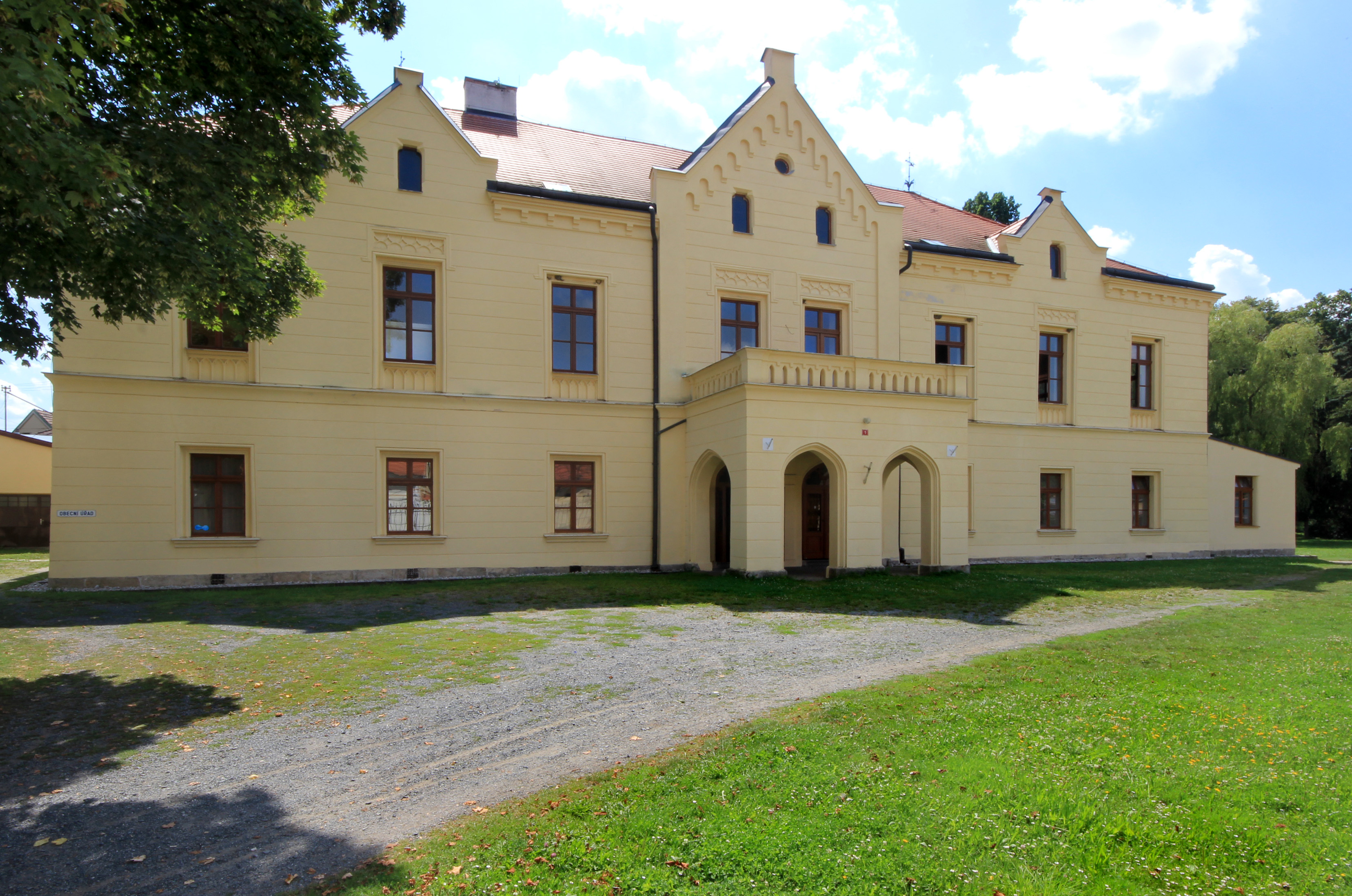 Osvračín castle in Osvračín village, Czech Republic.